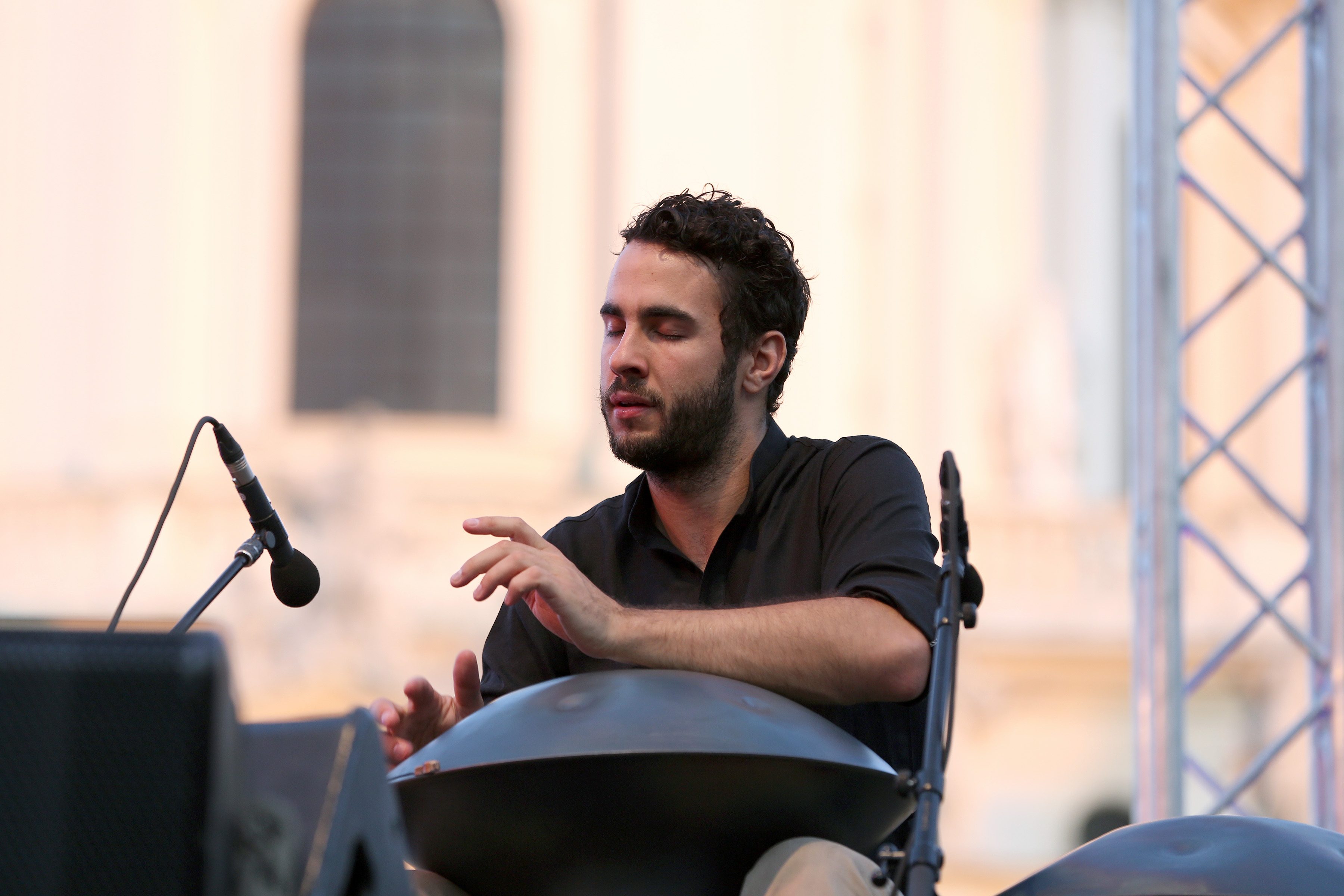 Manu Delago Handmade, concert at Karlsplatz during Popfest 2014 in Vienna, Austria.